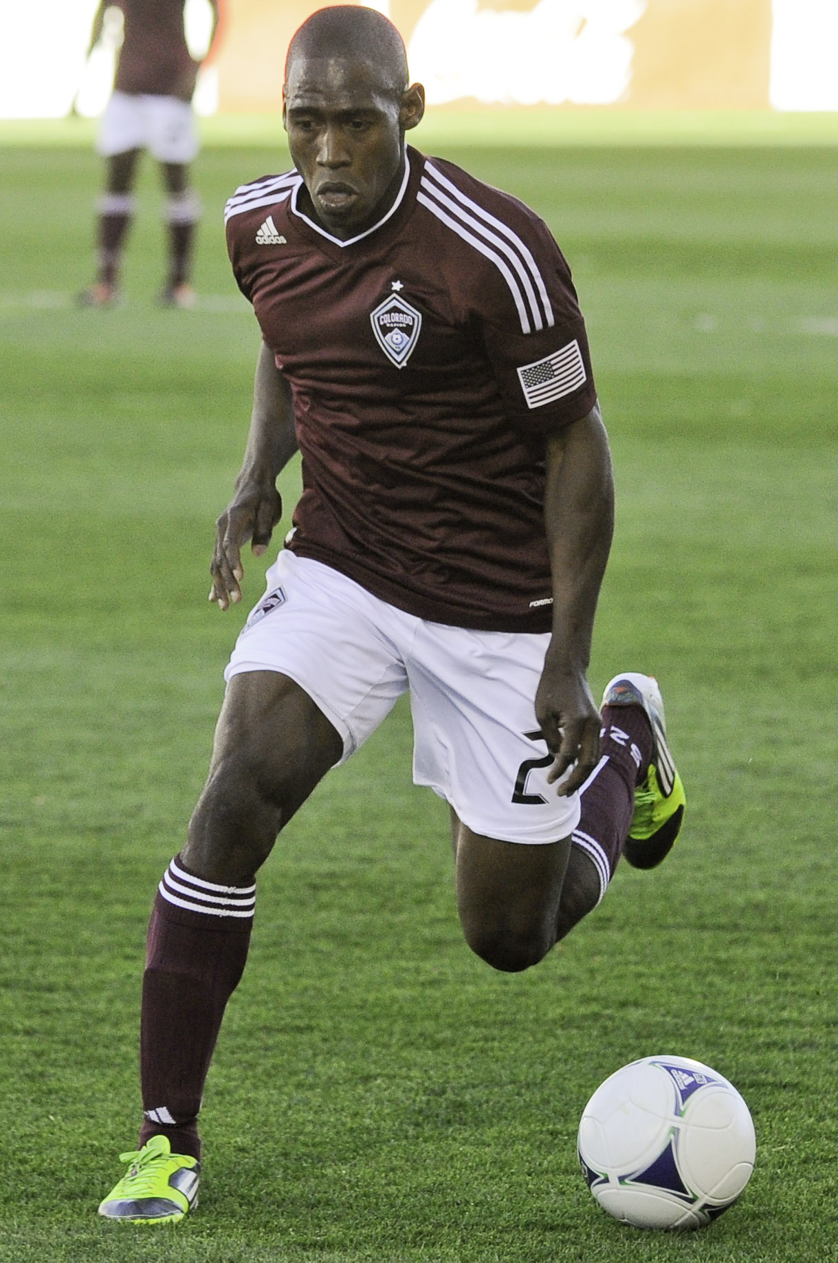 Game day photos taken at a MLS Colorado Rapids game on 4/1/12 by Ed Clemente Photography